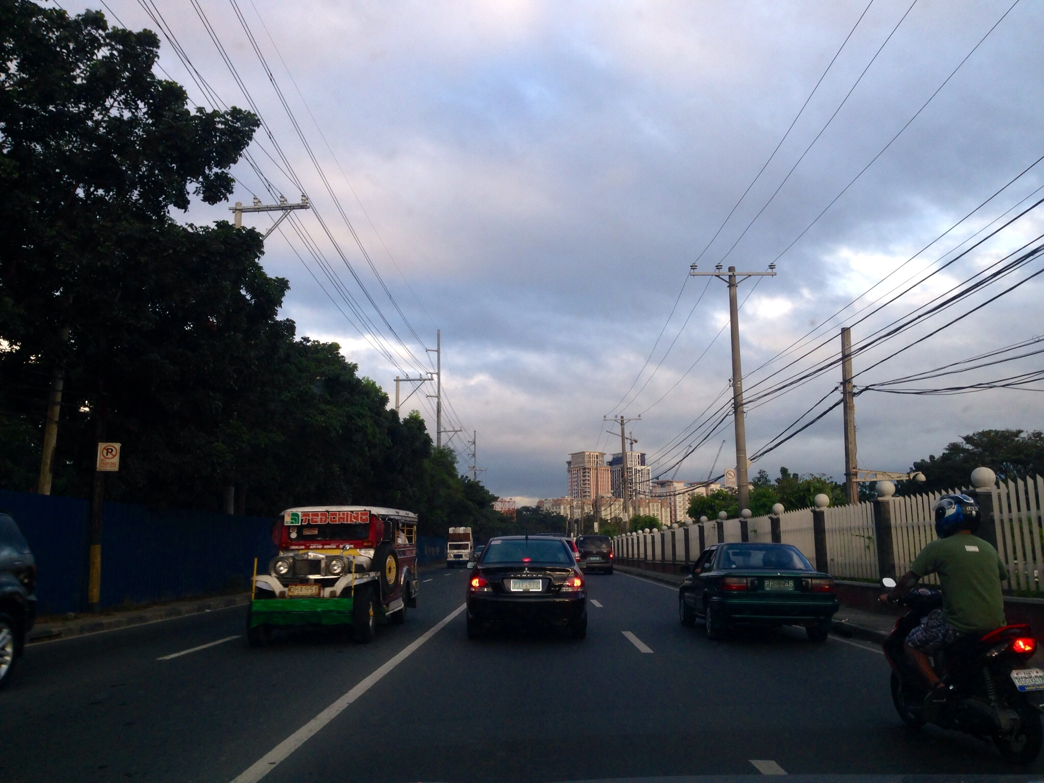 Lawton Avenue near McKinley Hill, Fort Bonifacio, Manila, Philippines